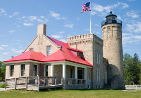 Old Mackinac Point Lighthouse at the junction of Lake Michigan and Lake Huron, Michigan, USA Category:Images of Michigan